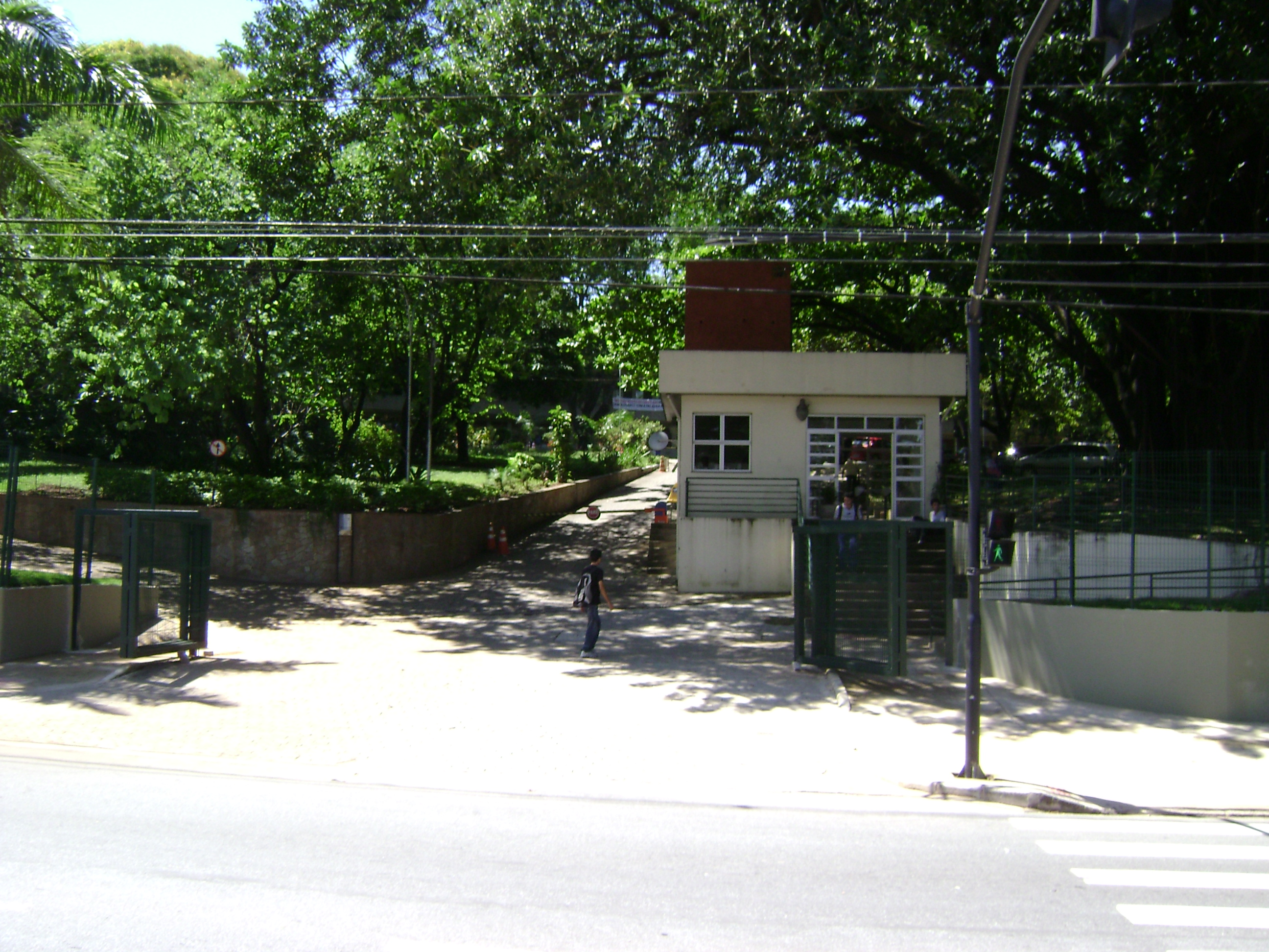 Entrance of campus II of Centro Federal de Educação Tecnológica de Minas Gerais, in Belo Horizonte, Brazil.